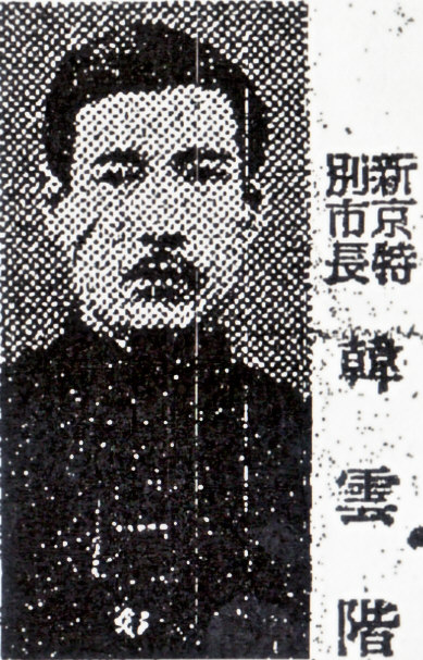 Han Yunjie (Han Yun-chie) (1894 - 1982)